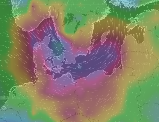 Peak gust knots screenshot 00h 8 November 2015